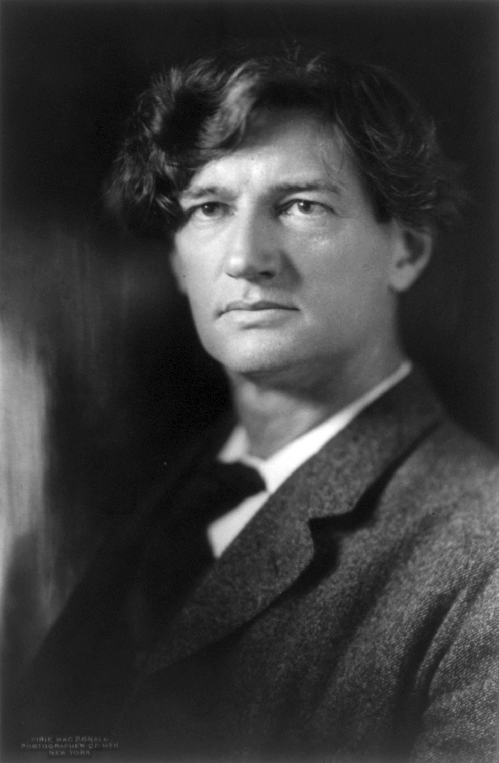 Bliss Carman, Canadian-American poet